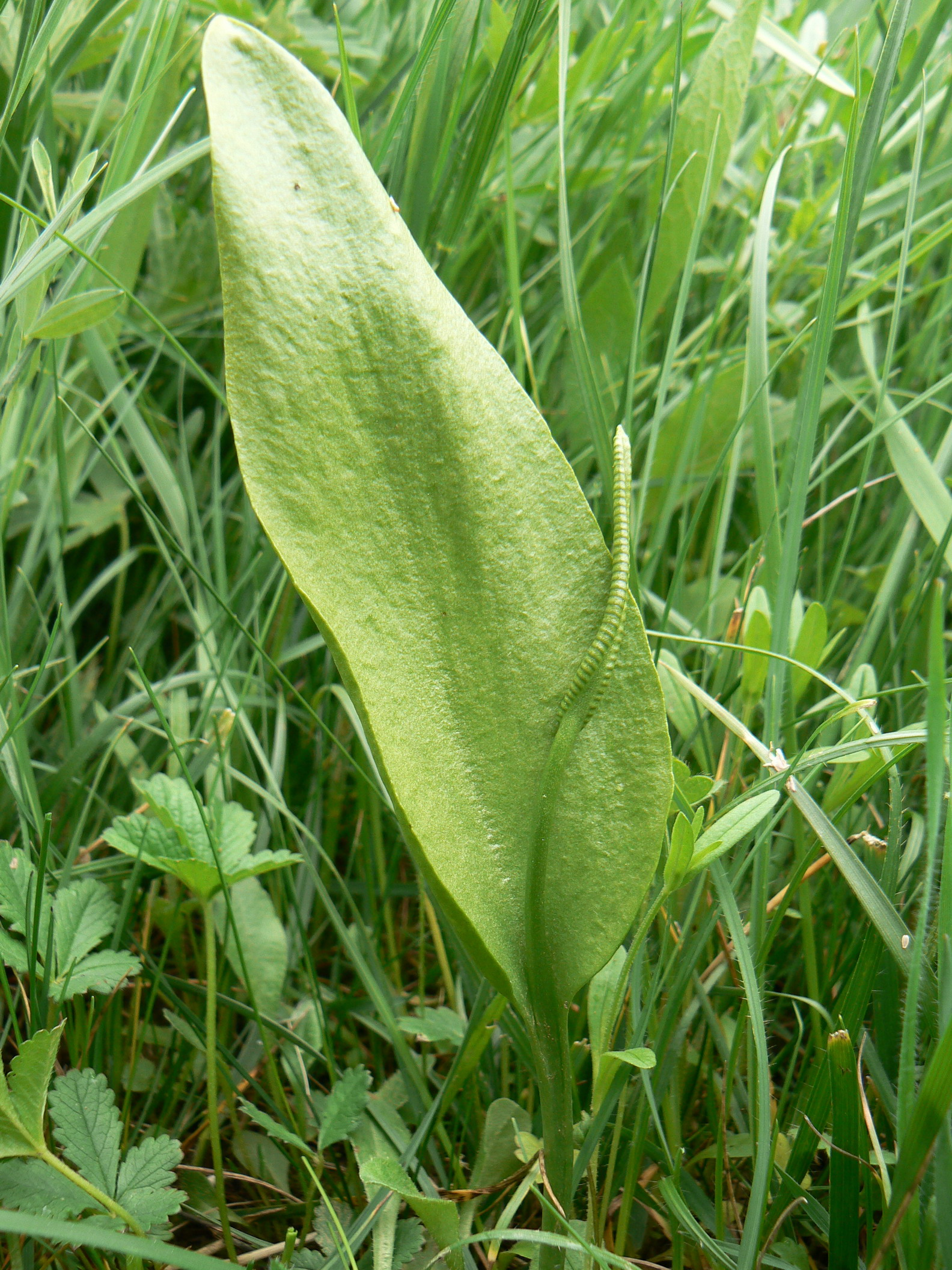 Ophioglossum vulgatum, Causses, France